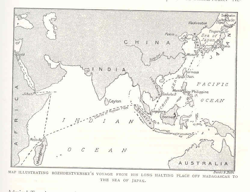 Rozhestvenskii voyage from madagasker to the see of Japan